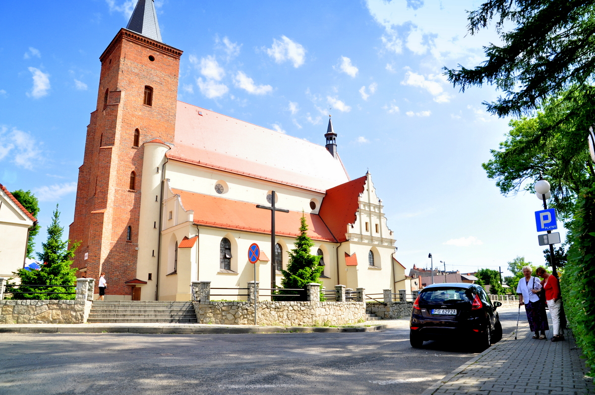 Saint John the Baptist parish church in Krotoszyn, Poland